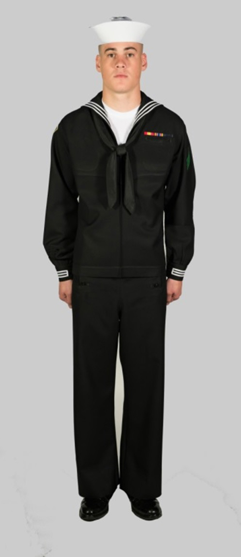 Enlisted Dress Blues Uniform for the US Navy